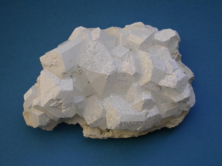 Borax Locality: Larderello, Pomarance, Pisa Province, Tuscany, Italy Nice Borax specimen, size: 8x6 cm. Specimen and photo Leon Hupperichs. This Photo was Photo of the Day - 12th Apr 2009